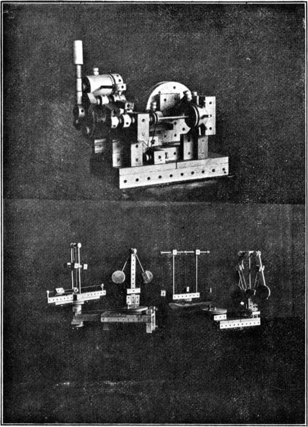 Meccano installations. From De Stijl, vol. 5, nr. 5 (May 1922): p. 79.